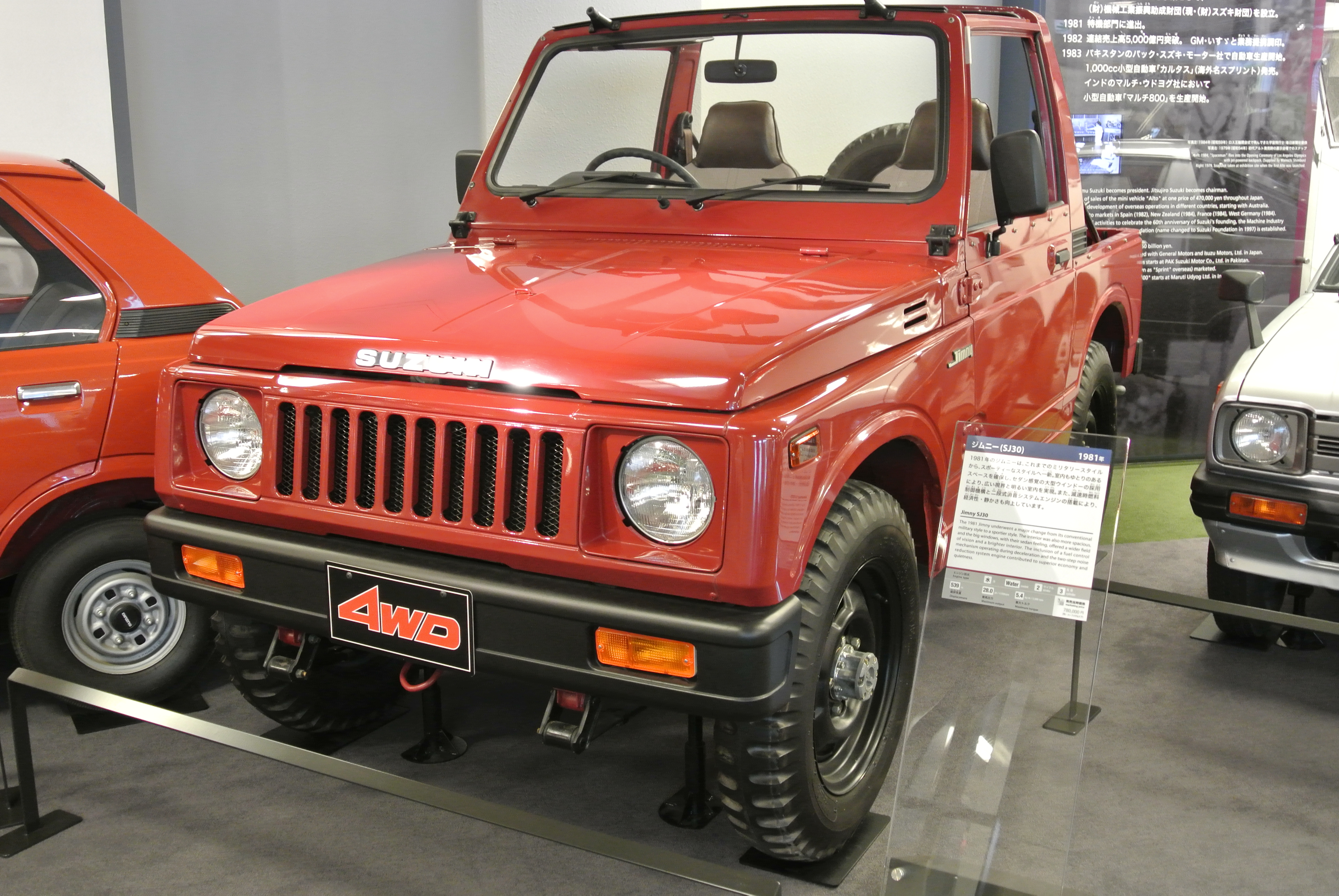 1981 Suzuki Jimny SJ30 in the Suzuki History Museum.